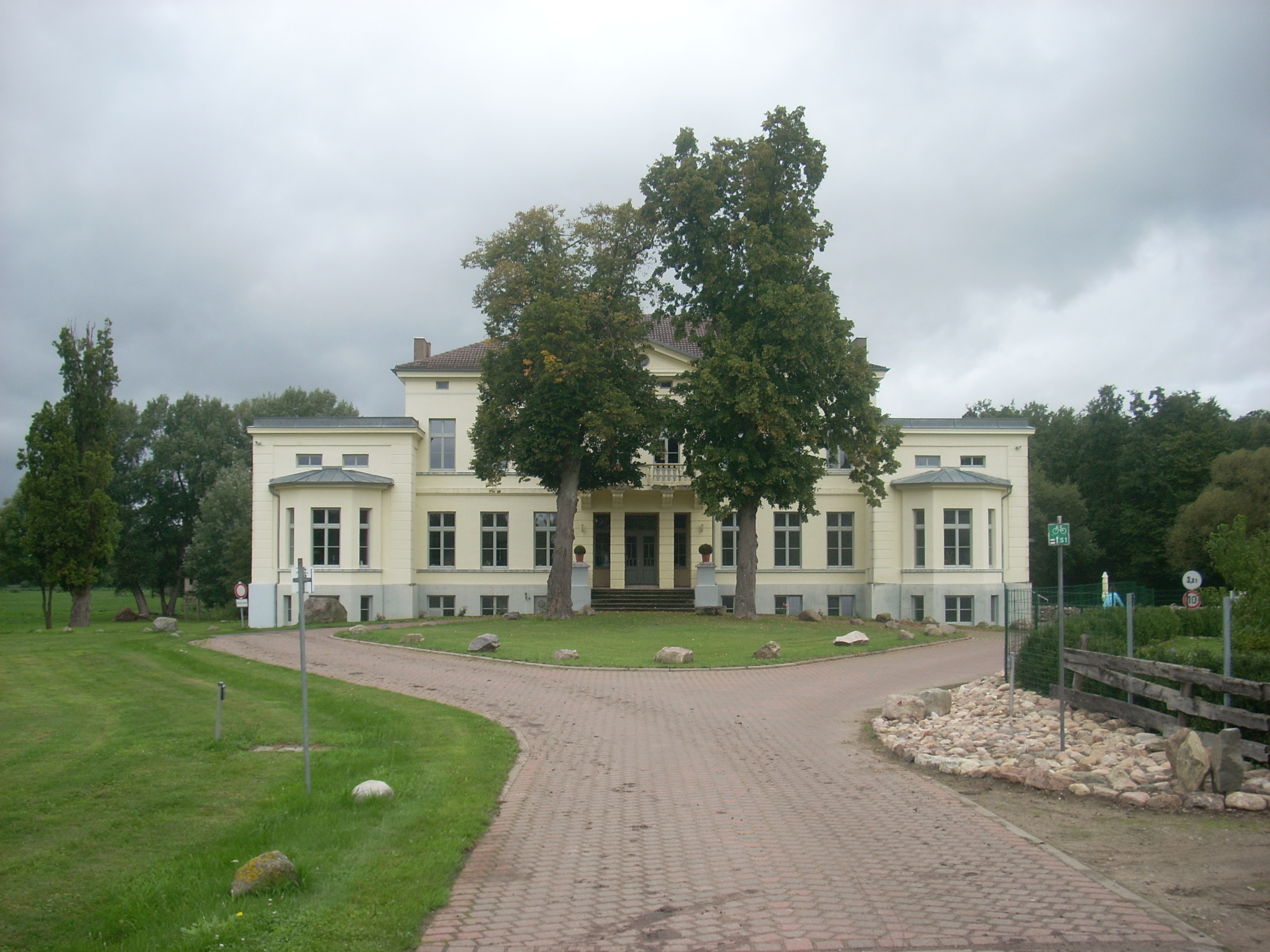 Manor house Zülow near by Sternberg, Mecklenburg-Vorpommern